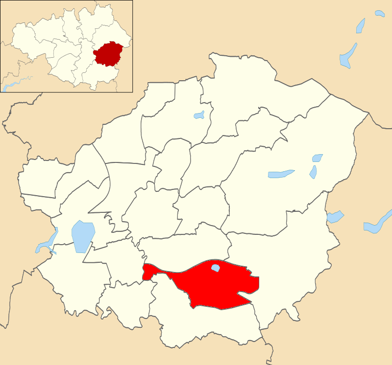 Map showing location of Hyde Godley Ward within Tameside Metropolitan Borough Council.